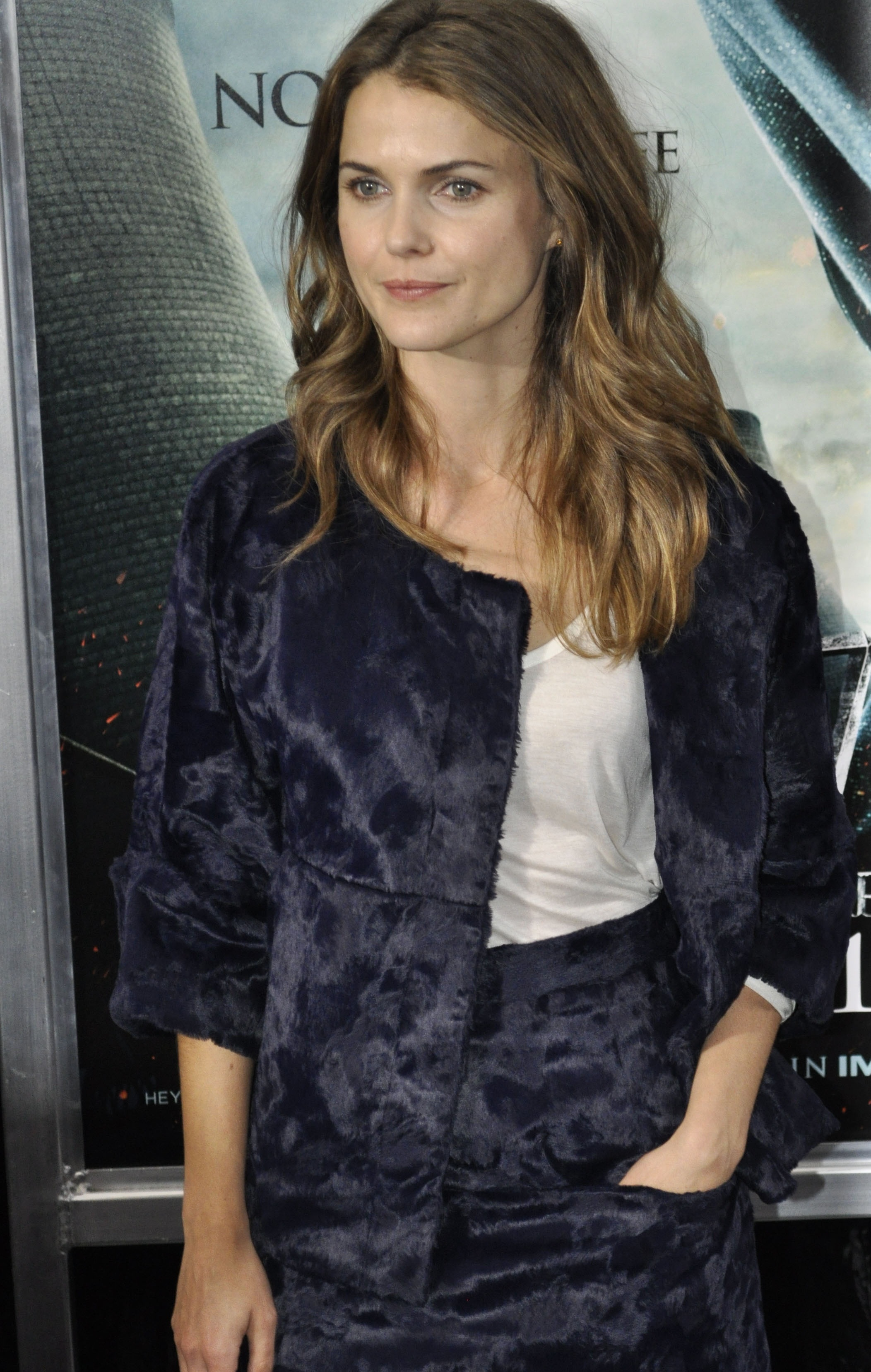 Keri Russell at the film premiere of Harry Potter and The Deathly Hallows in Alice Tully Center, New York City in November 2010.